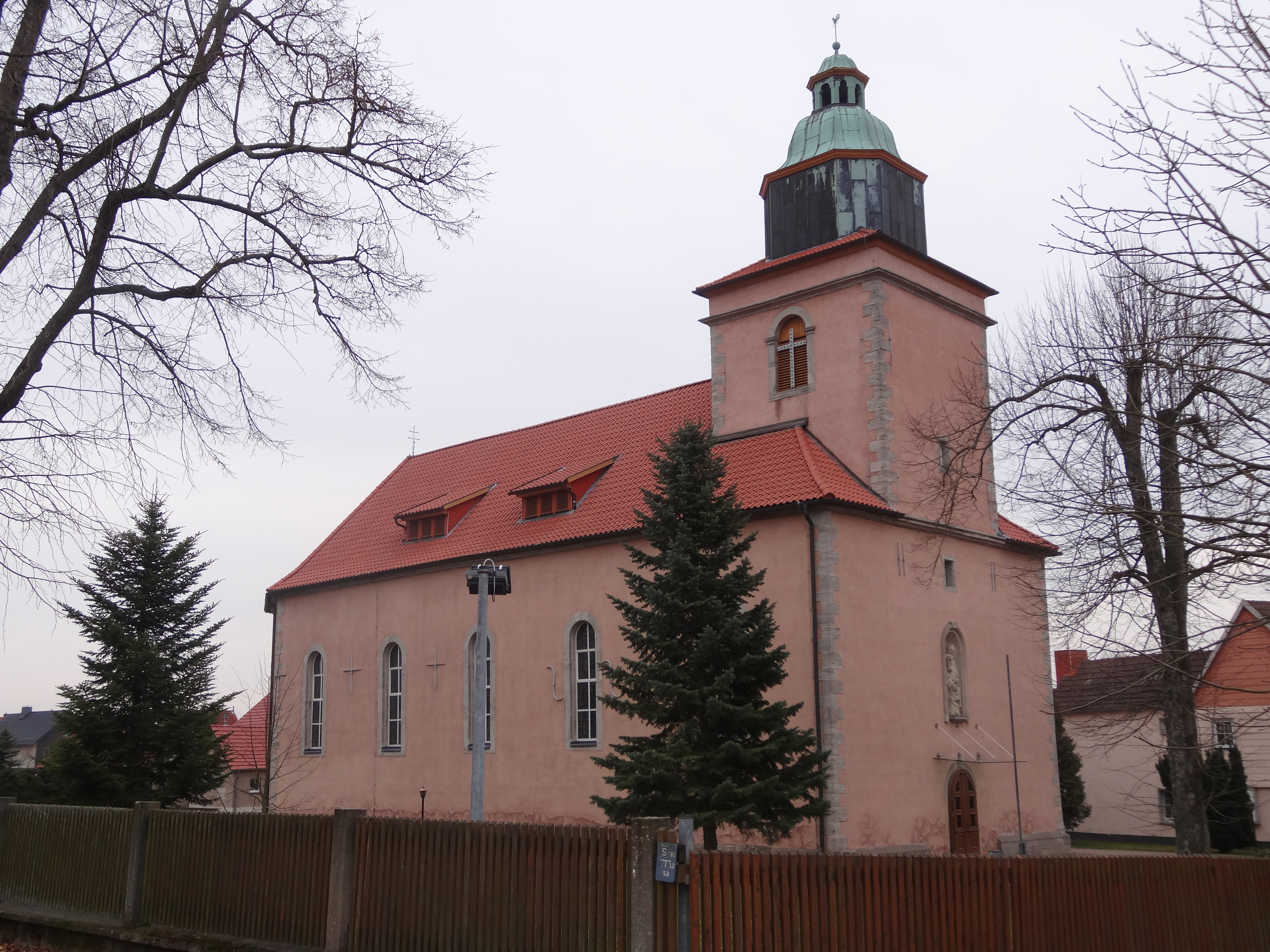 Church in Hüpstedt, Thuringia, Germany